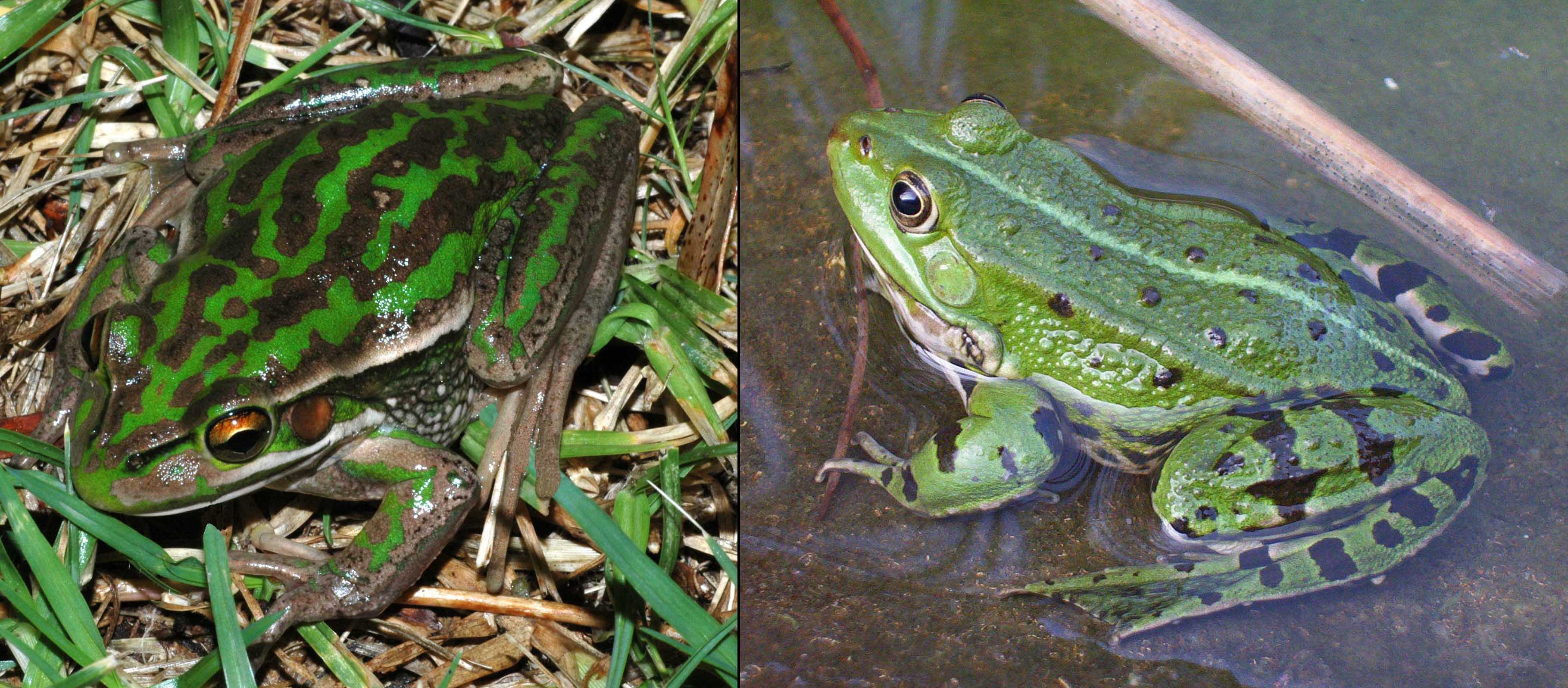 Rana kl. esculenta image from Wikimedia Commons, Photograph by: Leo Bogert, Lisenced under :GDFL Litoria aurea image from English Wikipedia, Photograph by: Froggydarb, Lisenced under :GDFL Shows why Litoria aurea was first classed as rana. There are many physical similarities including; pointy snout, long legs, and almost complete toe webbing, the tympanum is large and distinct and the overall body shape is similar to many Rana species.